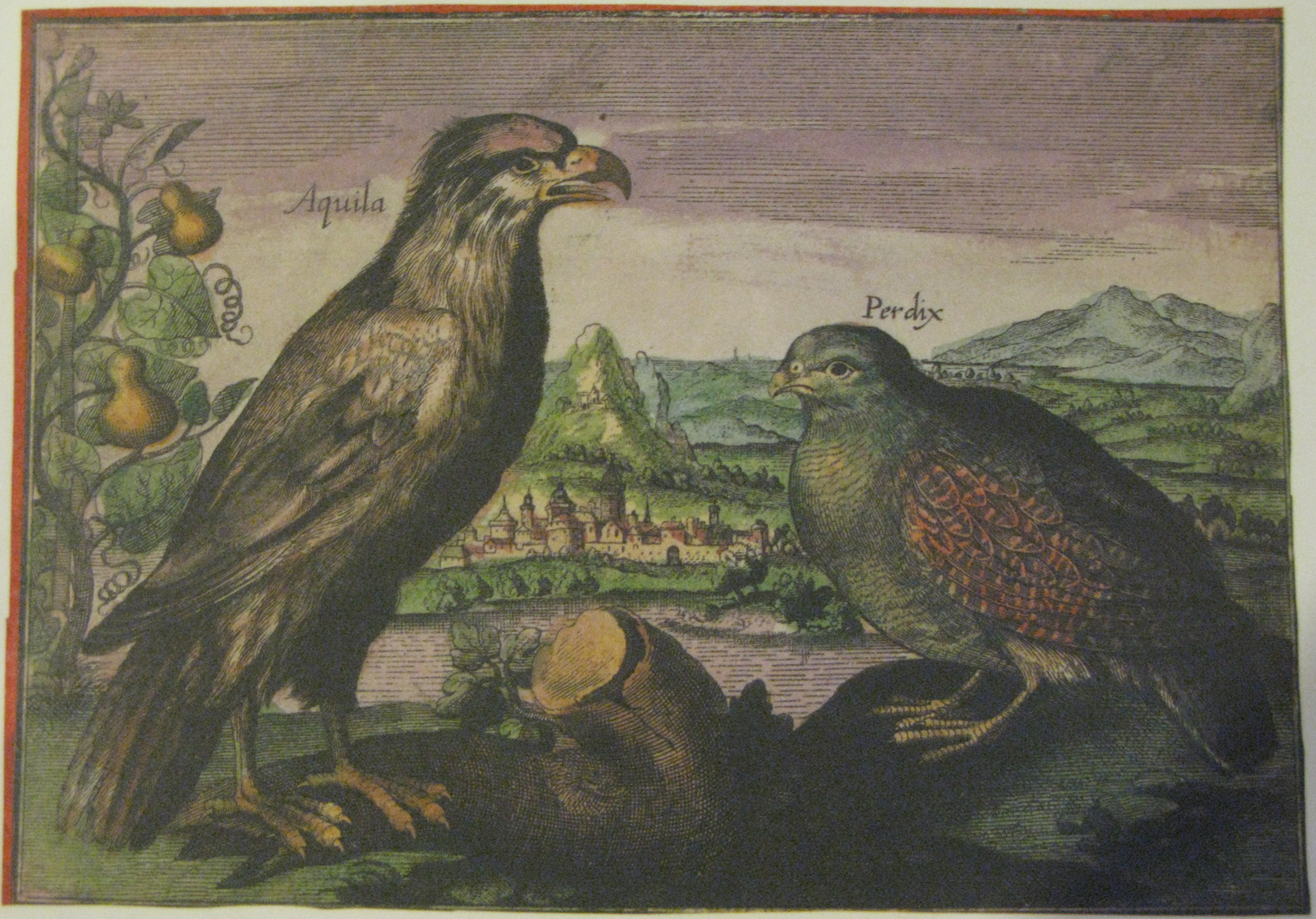 Eagle and partridge